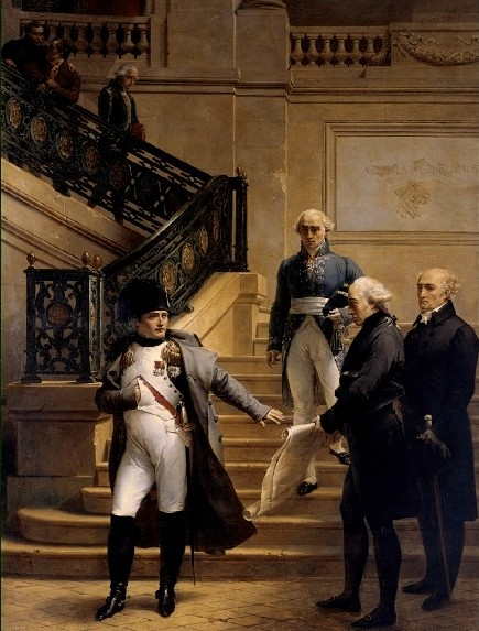 Portrait of Napoleon visiting the Tribunat, in the Palais Royal, Paris, 1807.